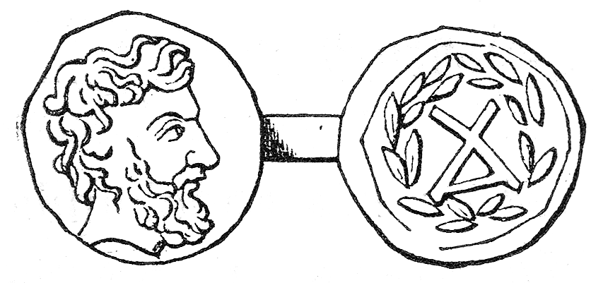 Illustration from Illustrerad verldshistoria by E. Wallis, volume I. "Coin from Achaean League."